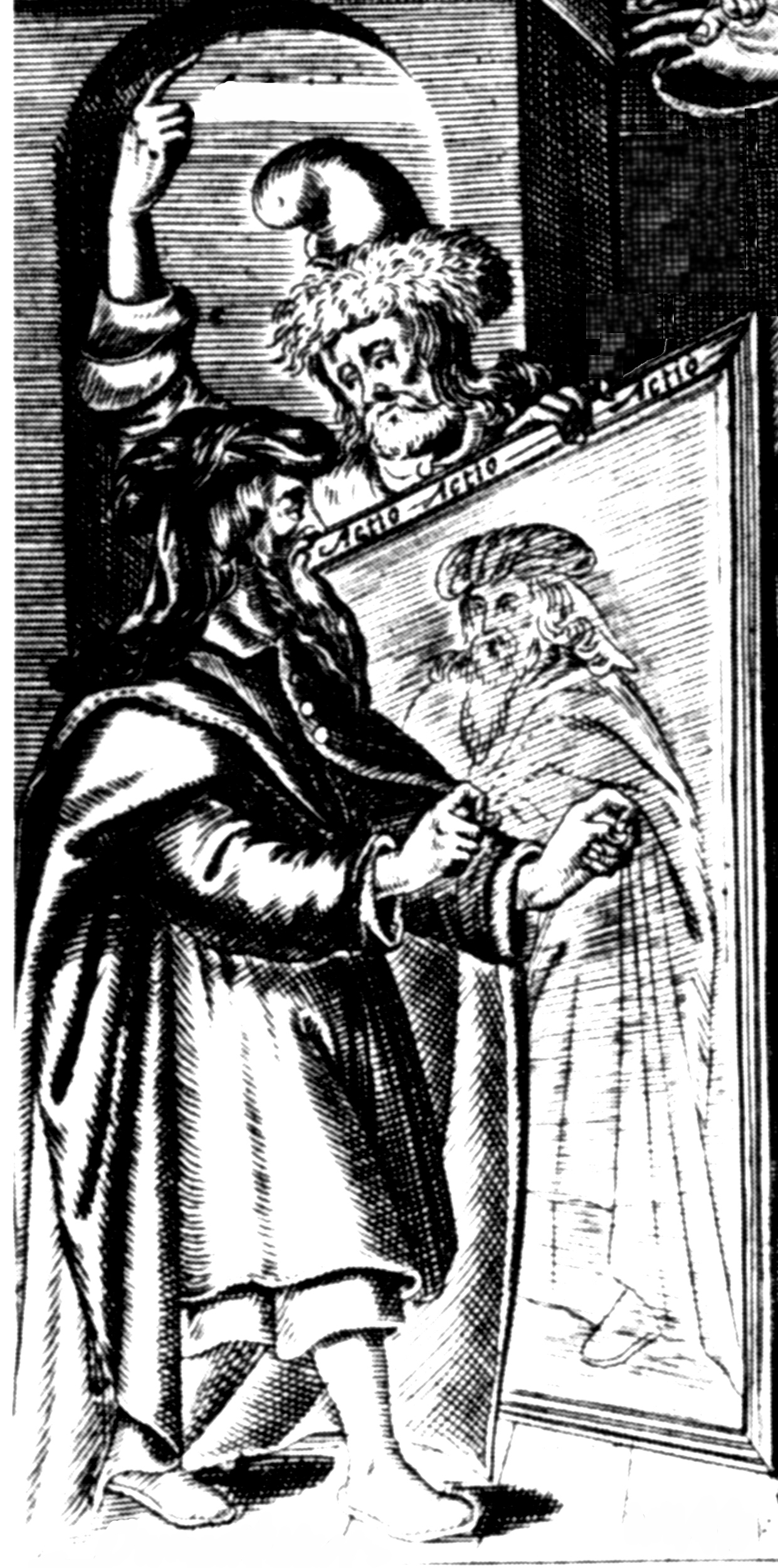 Slightly edited detail from title page of John Bulwer MD's Chironomia (1644), showing rhetoricians and actors - Demosthenes, Andronicus, Roscius and Cicero